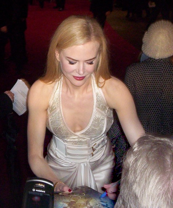 Nicole Kidman signing for fans at the London Premiere of 'The Golden Compass' - 27th December, 2007.